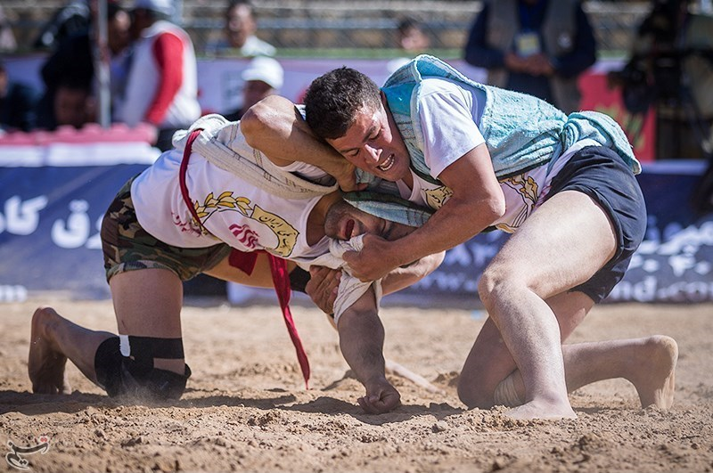 Ba-chukhe wrestling (traditional wrestling in Northern Khorasan) at Zaynal-khan pitch